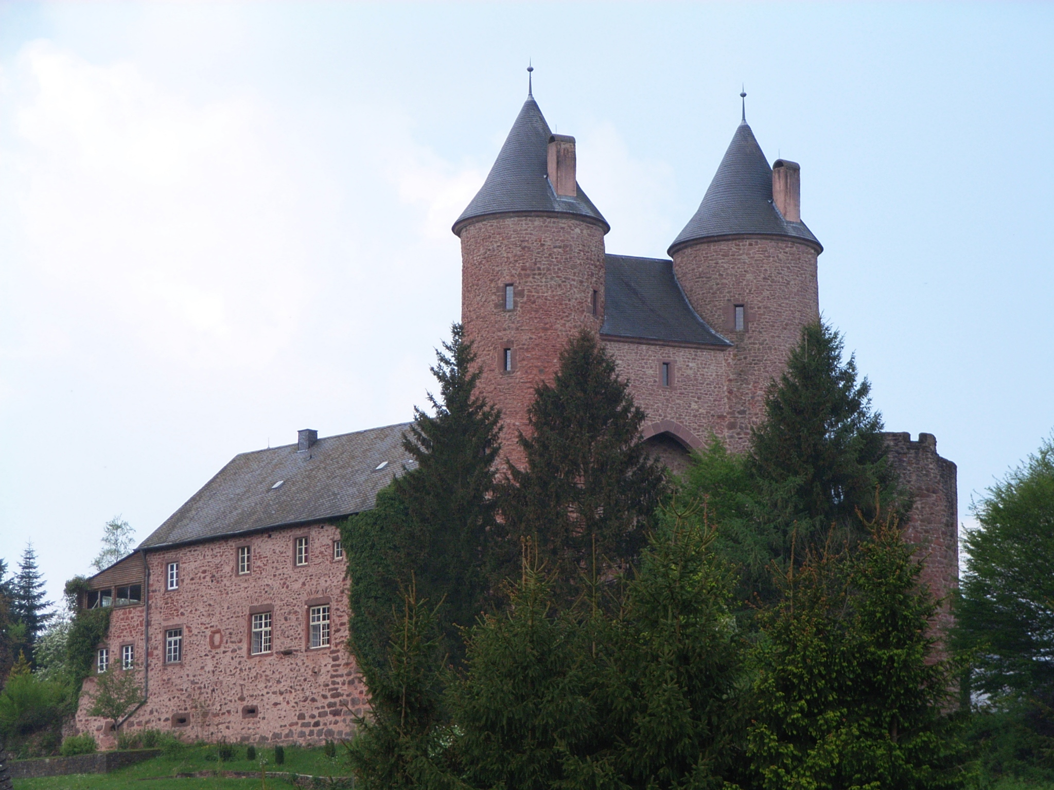 Bertrada castel in Mürlenbach, Germany. View from South-East.